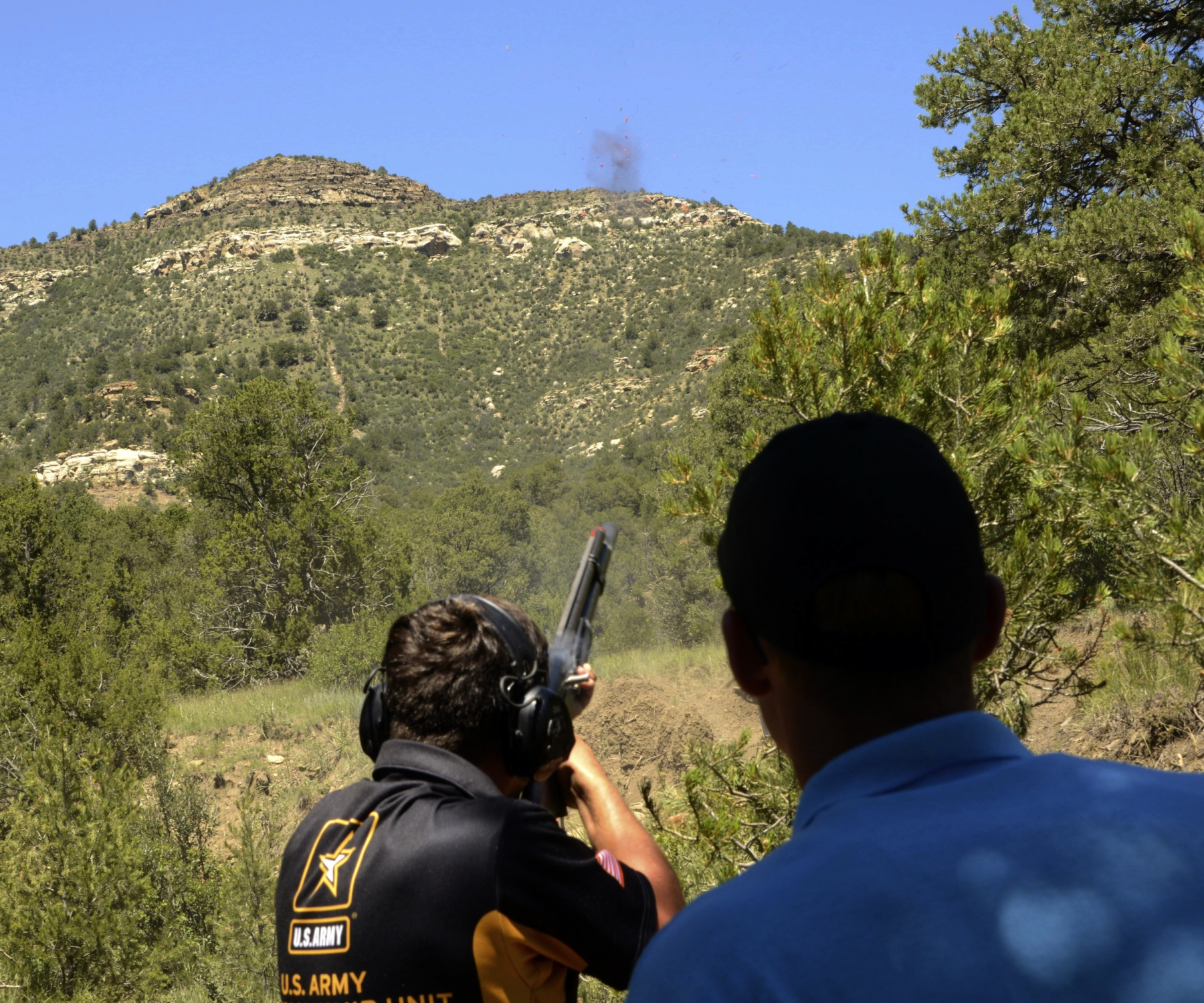 Daniel Horner of the USAMU Action Shooting Team firing his shotgun at a match in South Carolina, 2017.